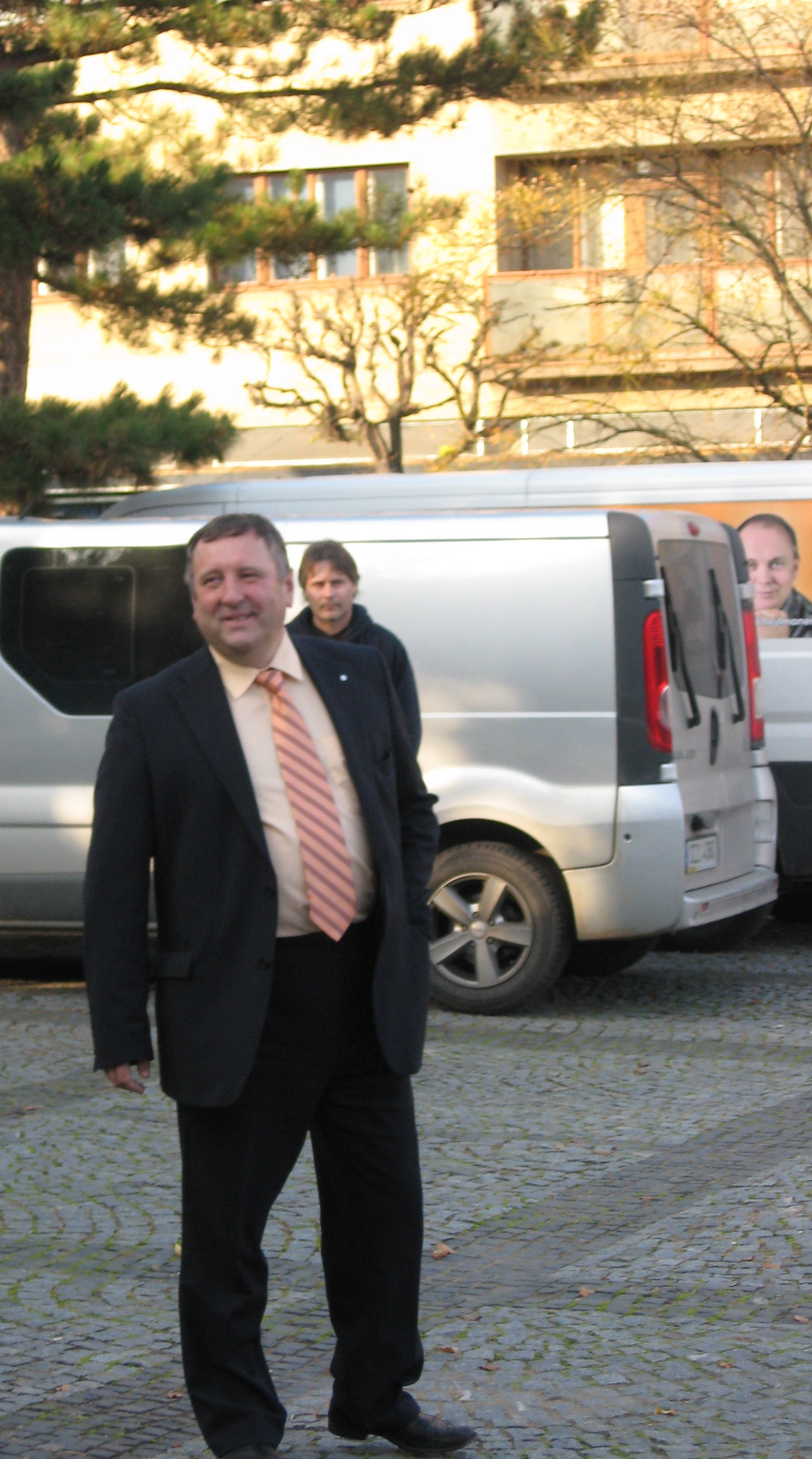 Ladislav Skopal in Moravsky Krumlov